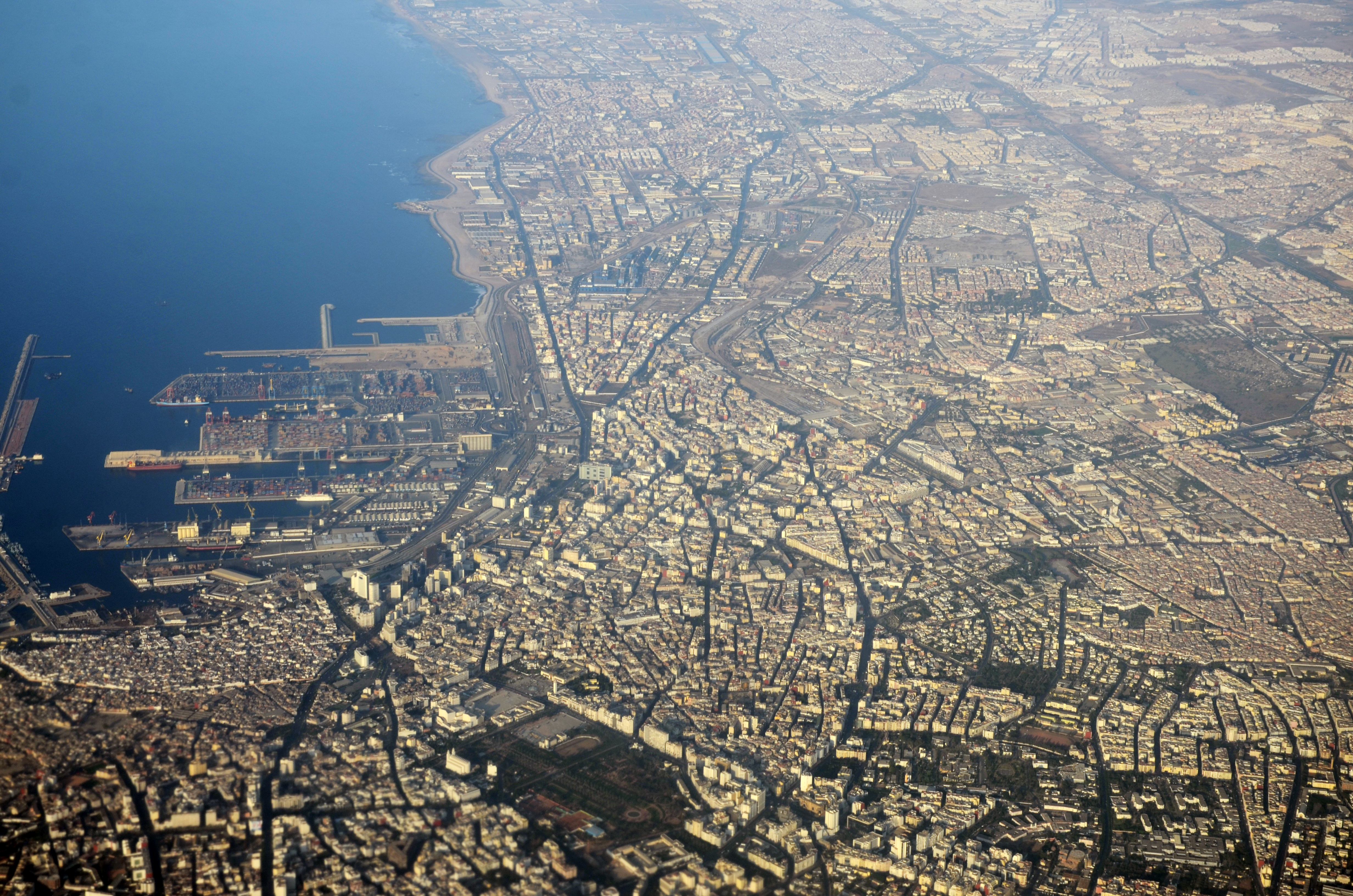 An aerial photograph of Casablanca, August 2018.